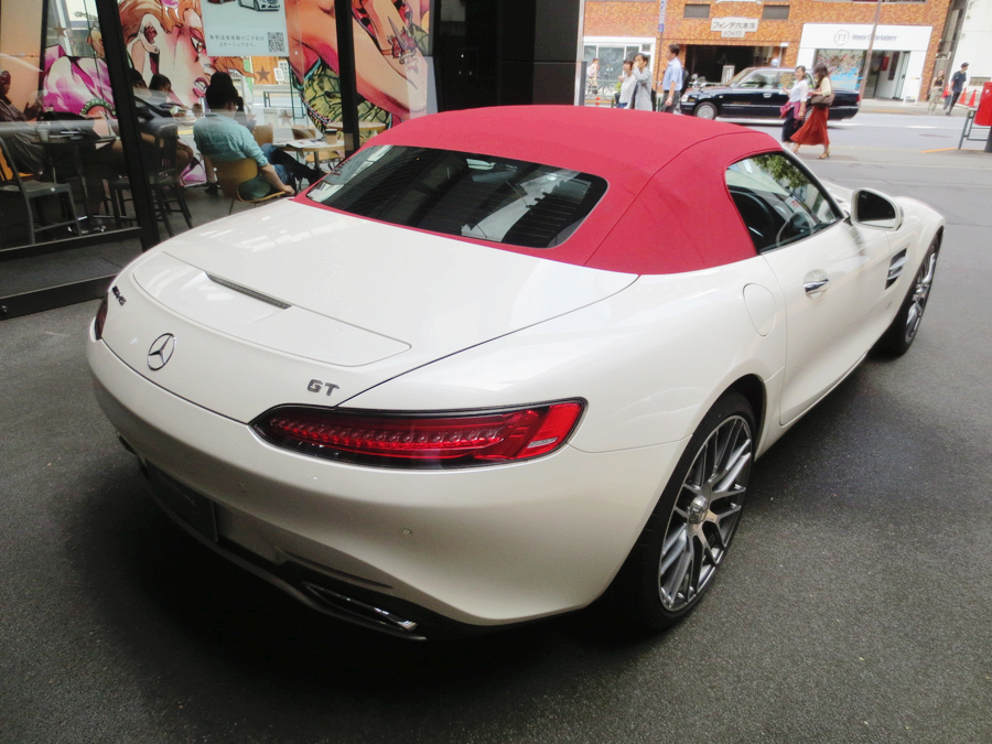 Mercedes-AMG R190